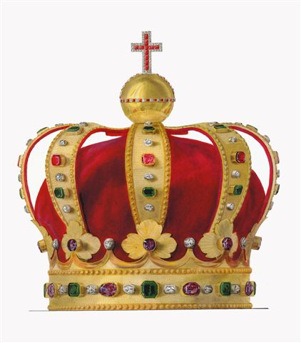 The Crown of King George XII of Georgia (Iberian Crown), later part of the Imperial Russian regalia. A painting by Fyodor Solntsev. Watercolor. Archive of Museum of Moscow Kremlin